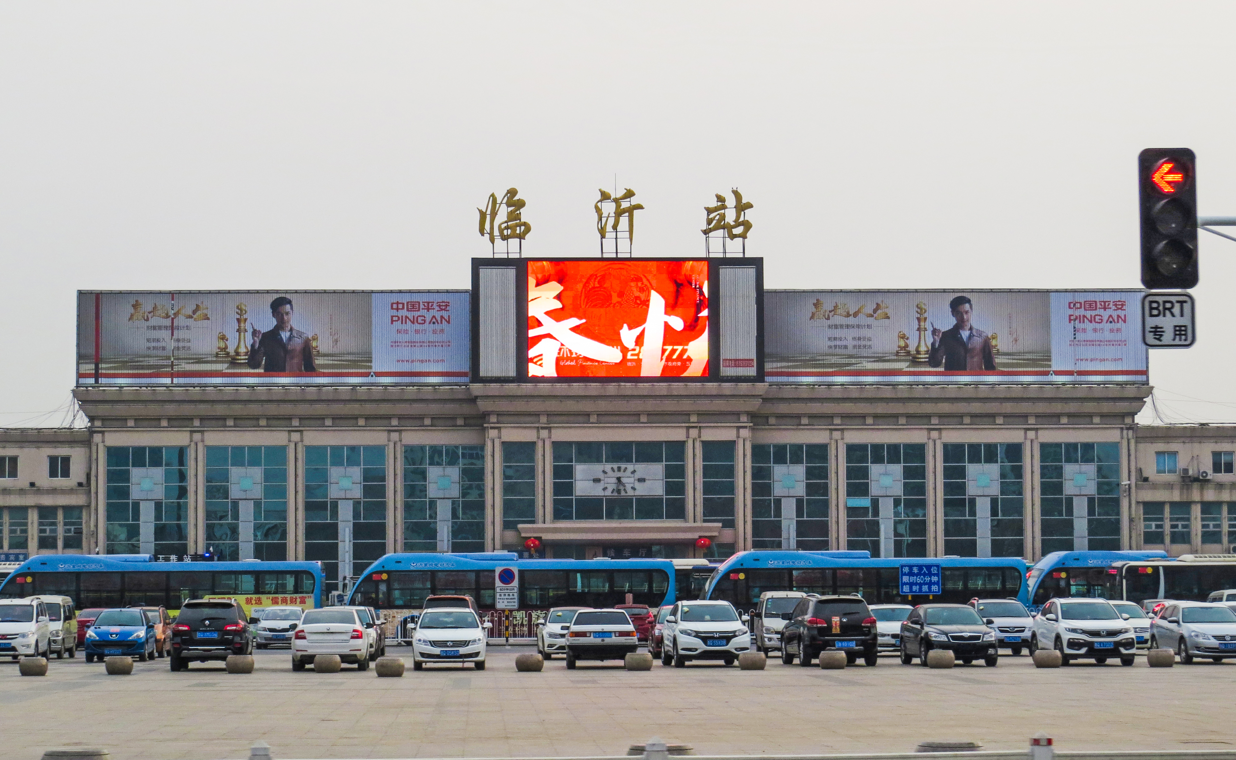 A BRT-dedicated traffic light interrupts the scene.